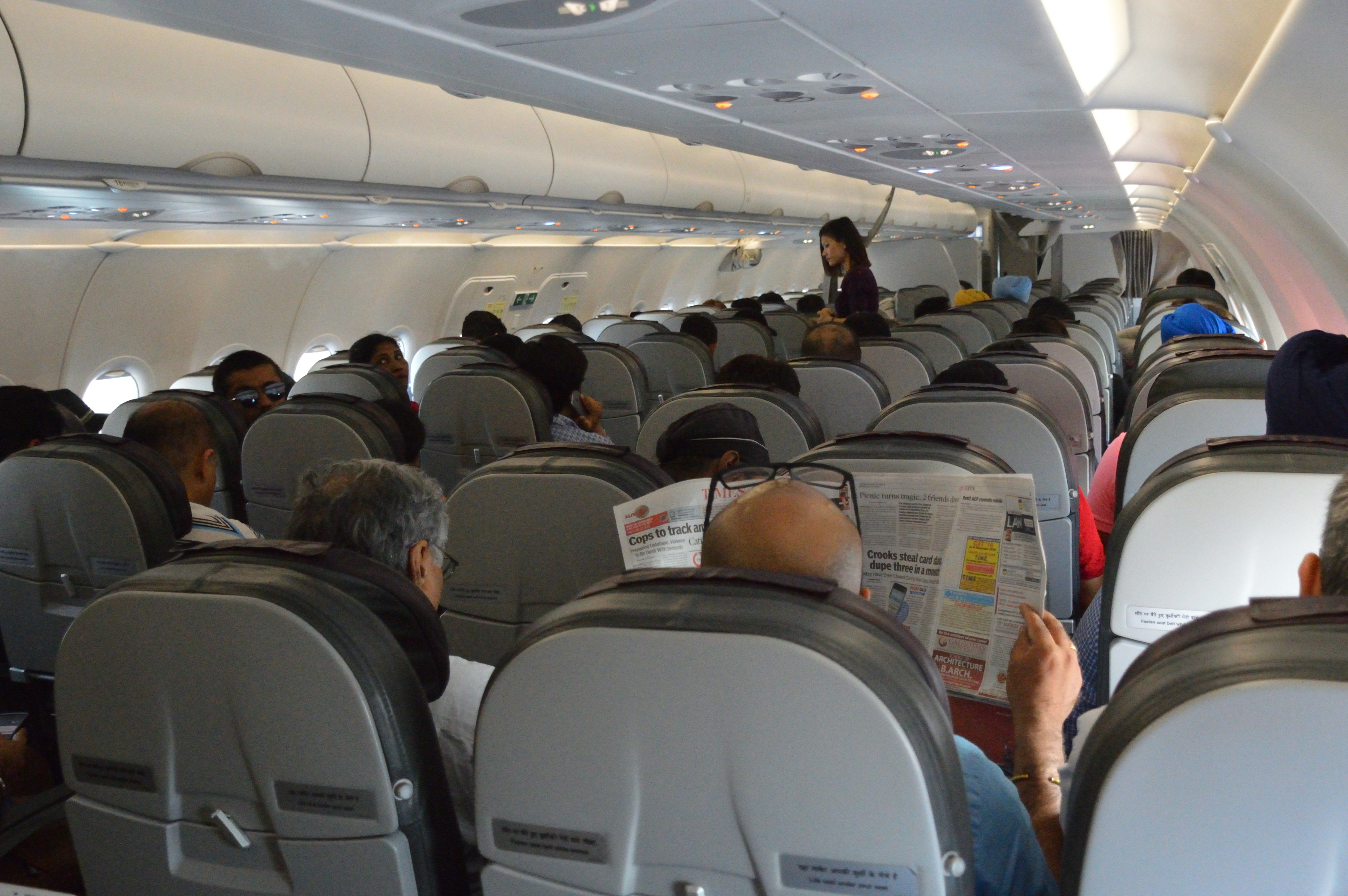 This photograph was taken at Mohali, Punjab.